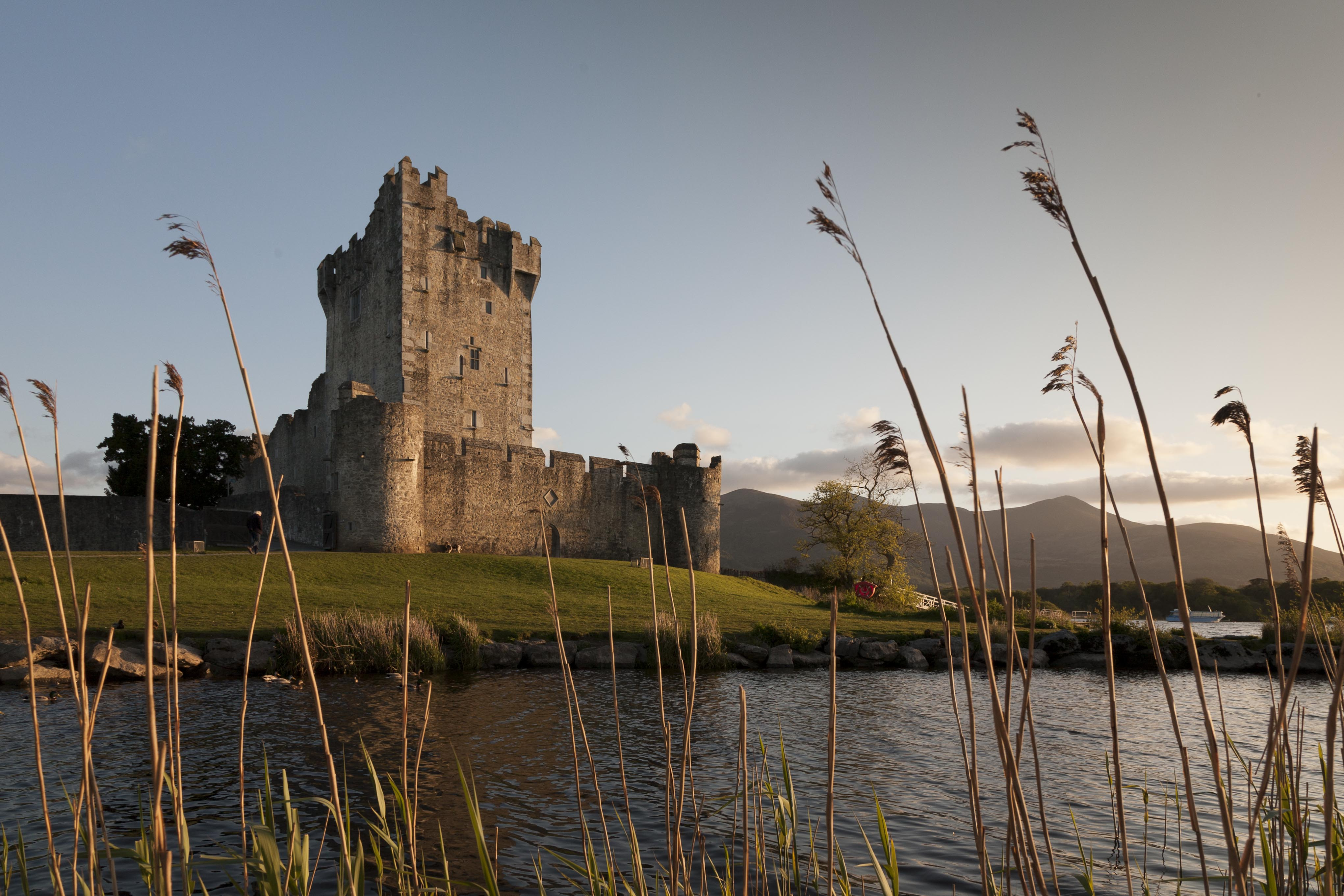 Ross Castle near Killarney, County Kerry